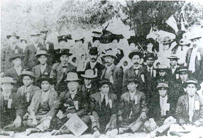 Japanese immigrants who worked at the mine of Kananea Company, Sonora, Mexico.